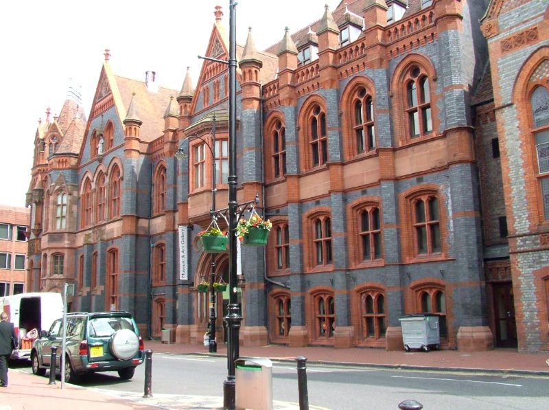 This part of the Old Town Hall now houses the Museum, Art Galaery and Concert Hall. The Concert Hall contains a fine 'Father Willis' organ which would have been lost but for the protest of a number of concerned citizens.